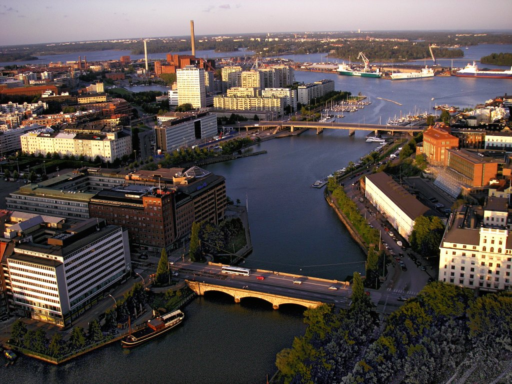 Kaisaniemenlahti in Helsinki from air